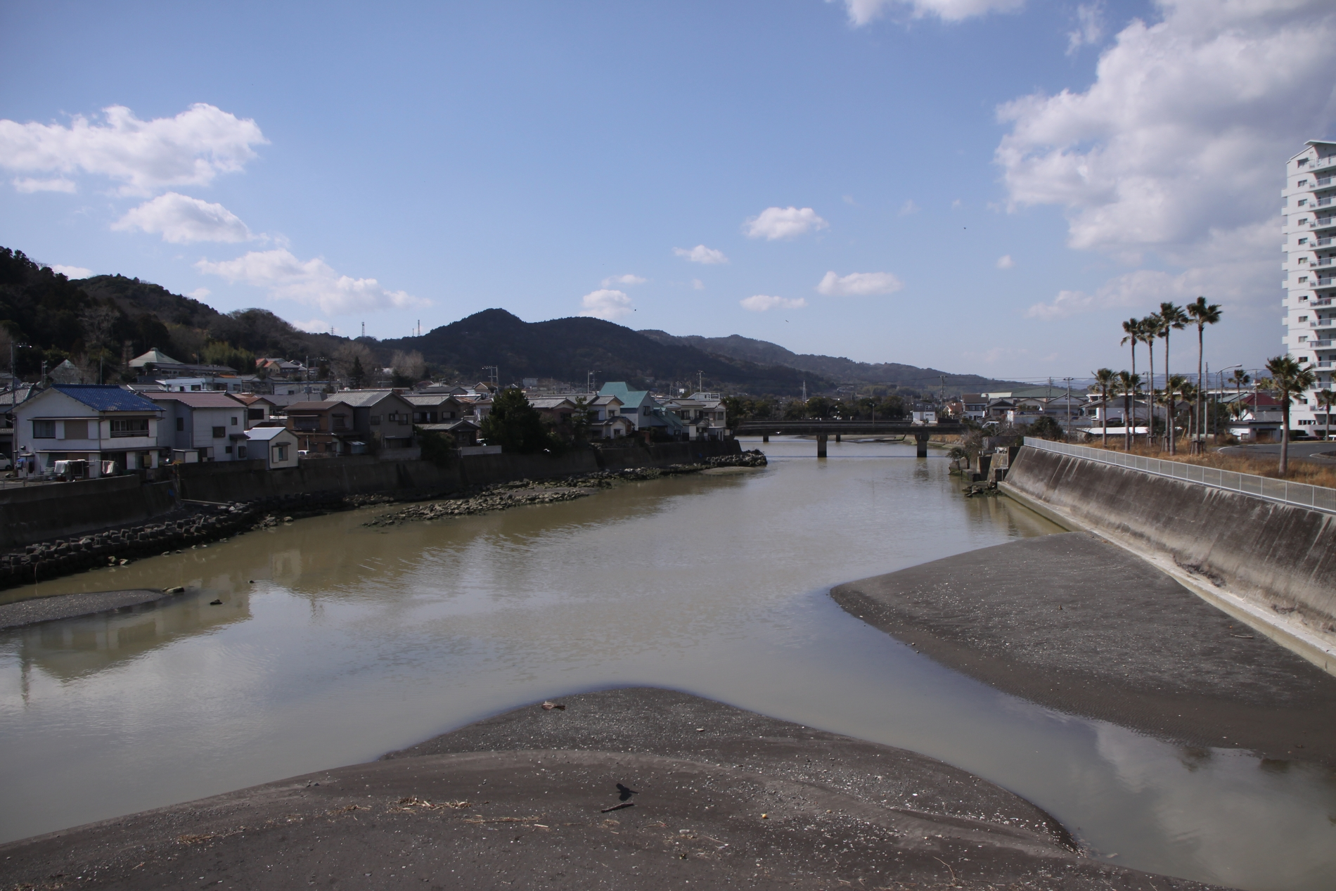 Kamo River, Kamogawa, Chiba Prefecture